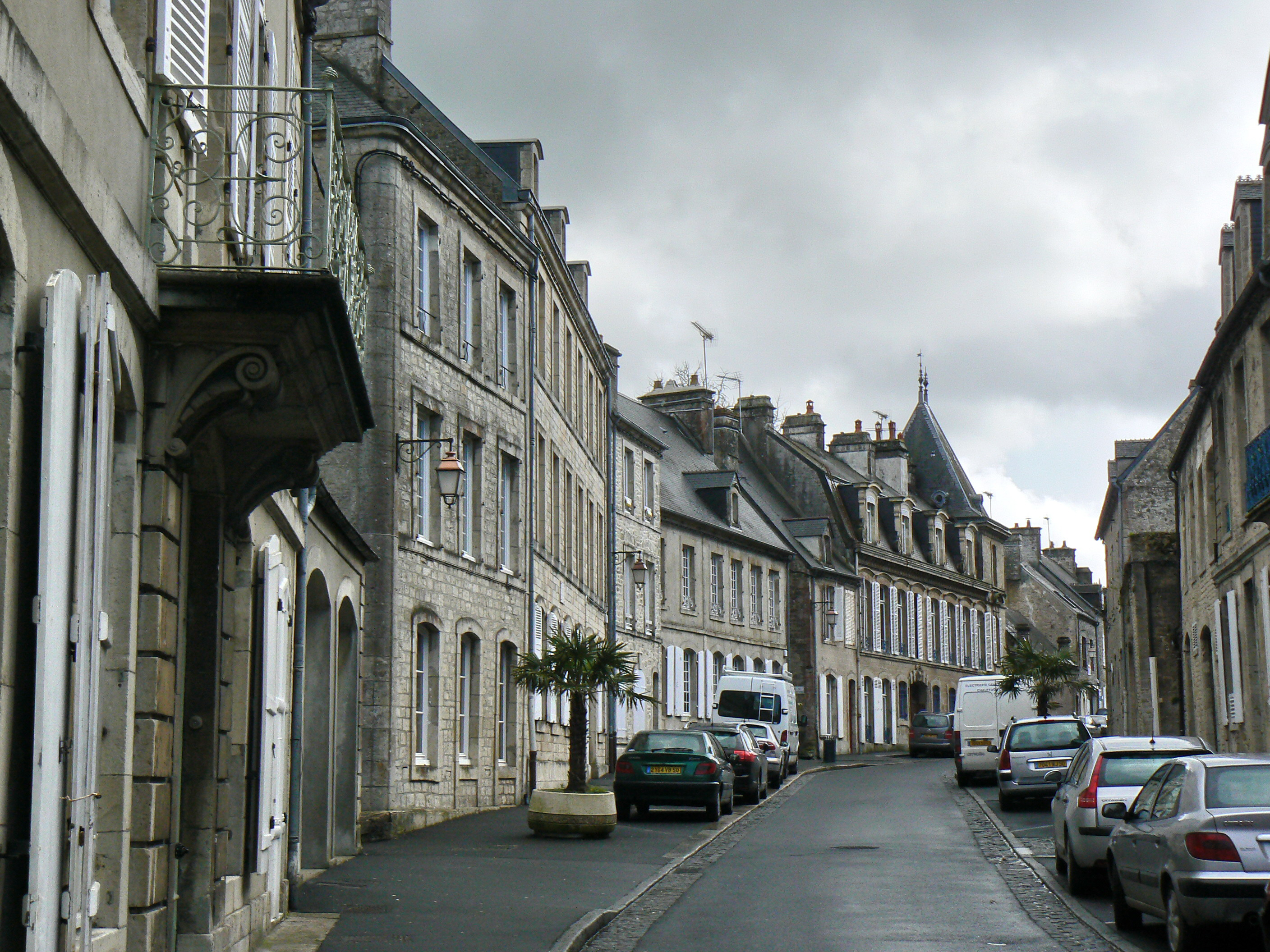 Street in Valognes, Manche, France